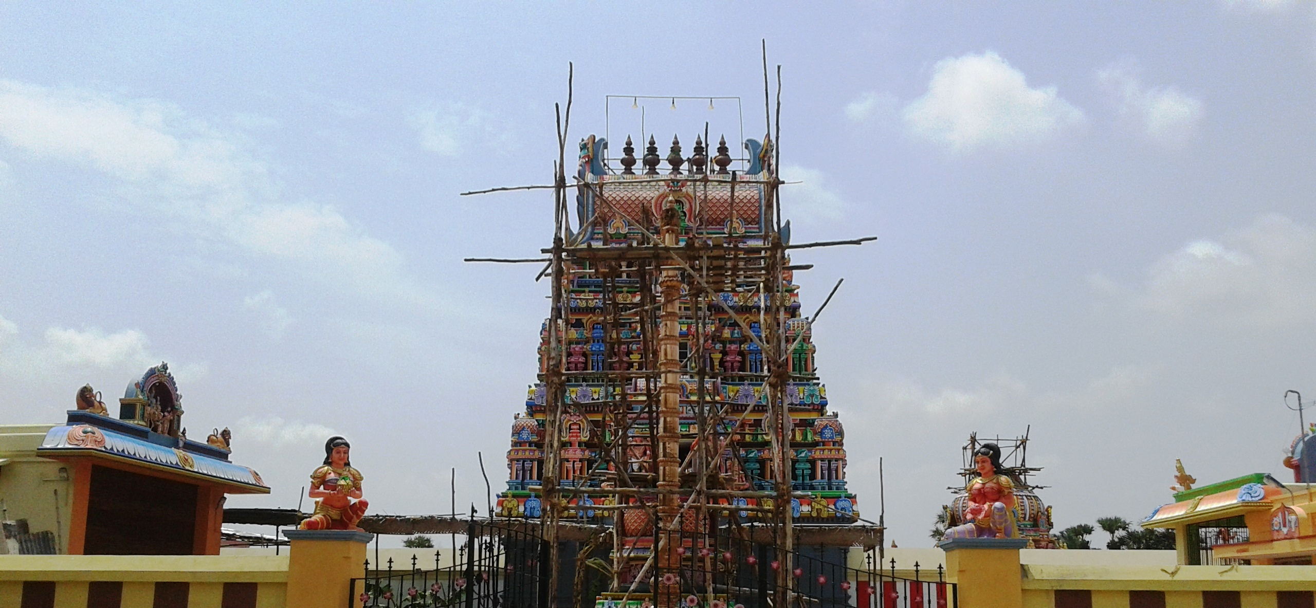 Thiruppaarththanpalli